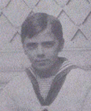 Prince Dmitri Aleksandrovich of Russia in 1914